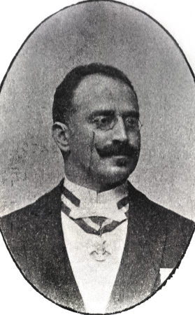 Anastasios Damvergis (1857-1920): Greek scientist and university professor